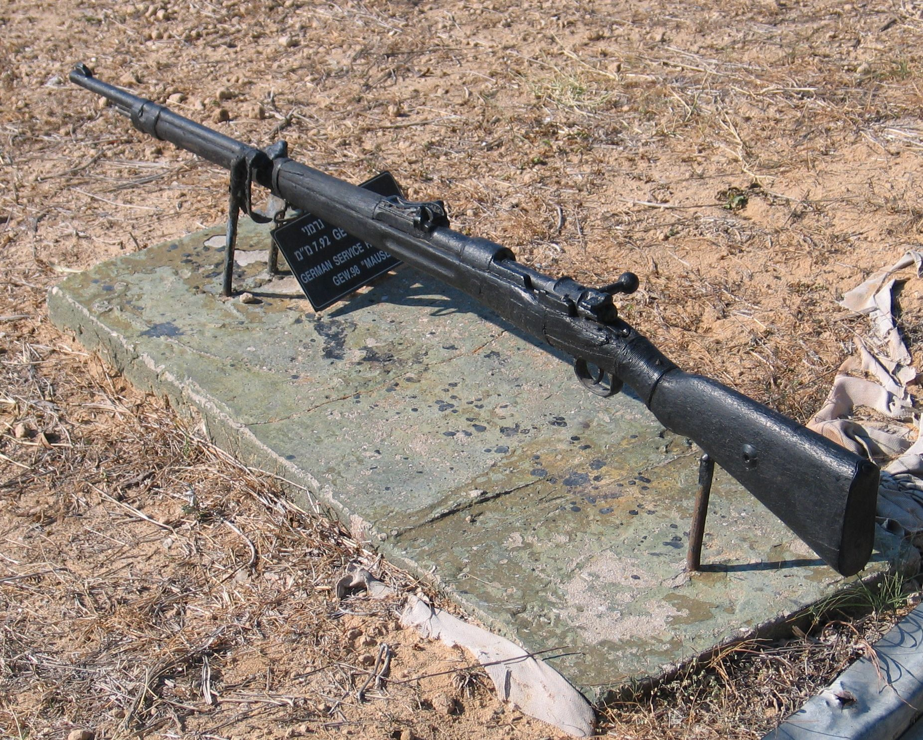 Mauser M1898 rifle at Yad Mordechai battlefield reconstruction site.